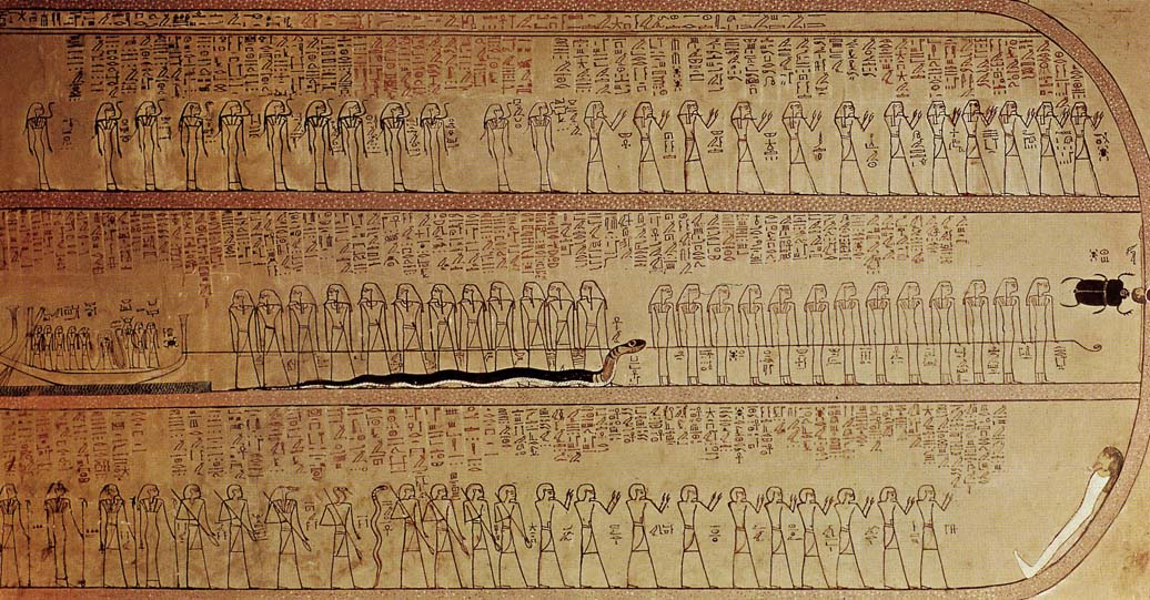 The Duat. Book of the Amdouat. Mortuary Chamber of Thoutmôsis III. KV34-35 Valley of the Kings. West Thebes.